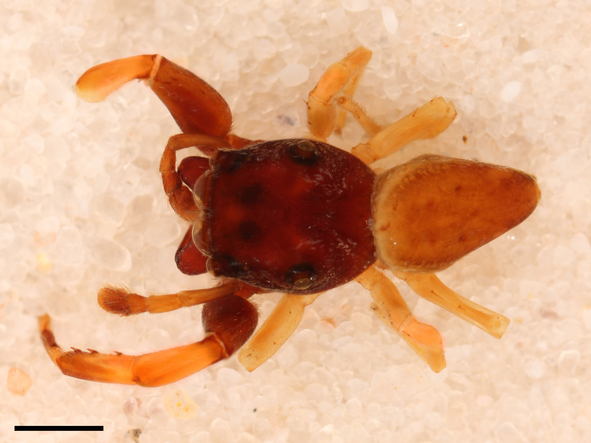 Male holotype of Zygoballus remotus jumping spider. Photographed at the Museum of Comparative Zoology. Dorsal view under alcohol. Specimen was collected in eastern Guatemala. Described by George and Elizabeth Peckham in 1896. Scale equals 1 mm.